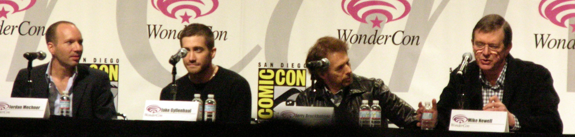 The Prince of Persia: The Sands of Time panel at WonderCon 2010. From left to right: the game's creator and co-screenwriter for the film, Jordan Mechner, lead actor Jake Gyllenhaal, producer Jerry Bruckheimer, and director Mike Newell.